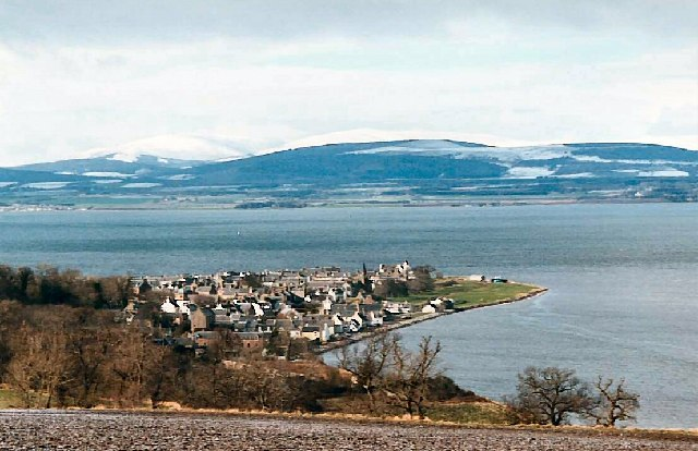 The town of Cromarty